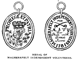 A drawing of an award medal granted to the First Magherafelt Volunteers for best shot at 100 yards in 1781.